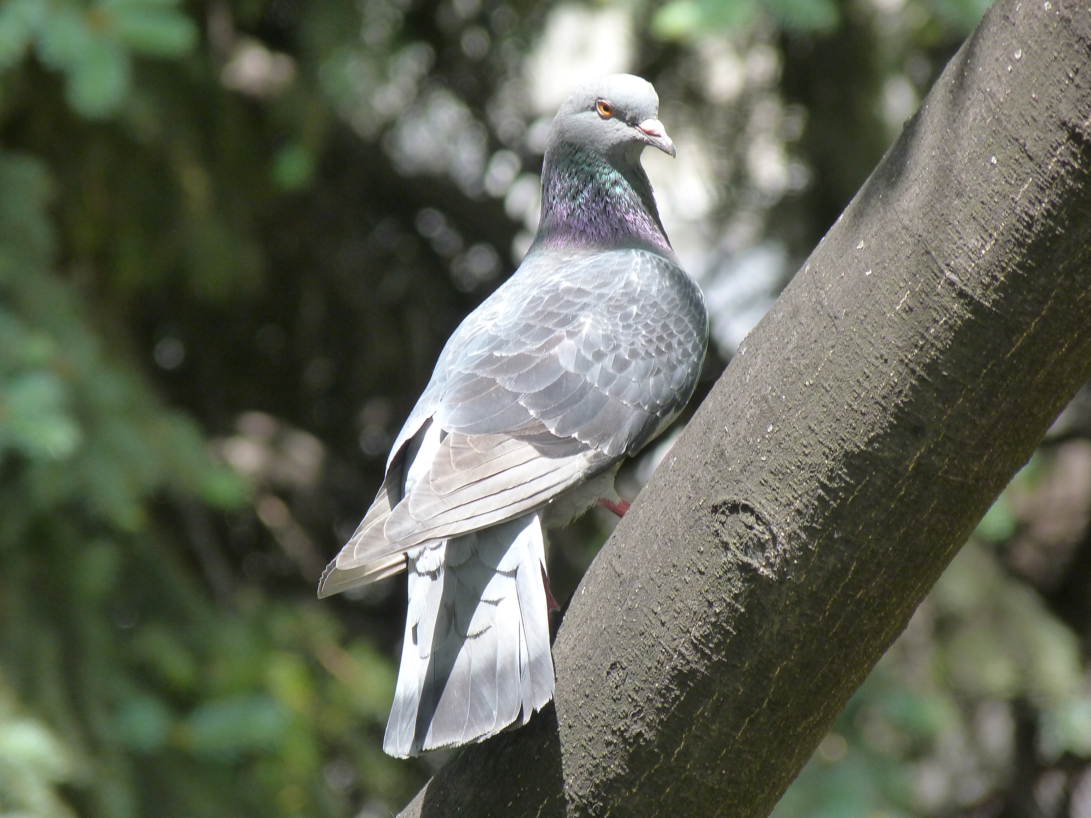 Live on the 19th of May, 2012. Kossuth tér, Budapest. ©© Derzsi Elekes Andor, Budapest, 2013, A kép és filmfelvételek egészben, vagy részletekben másolását, bármilyen úton történő sokszorosítását és felhasználását a szerző ellenérték nélkül, jogutódjaira is kihatóan megengedi. Az engedély kiterjed a kereskedelmi célú hasznosításra is. Kéri azonban nevének feltüntetését a felhasználás során. A Metapolisz sorozat valamennyi képe és filmje Creative Commons alatti valamint kereskedelmi - for profit - célra is felhasználható. Ajánlott hivatkozás: Derzsi Elekes Andor: Metapolisz DVD line